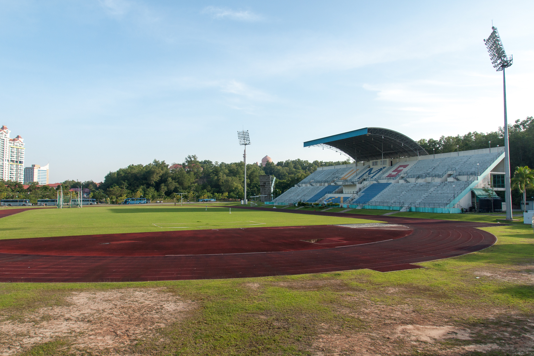 Universiti Malaysia Sabah (UMS), Sports Complex